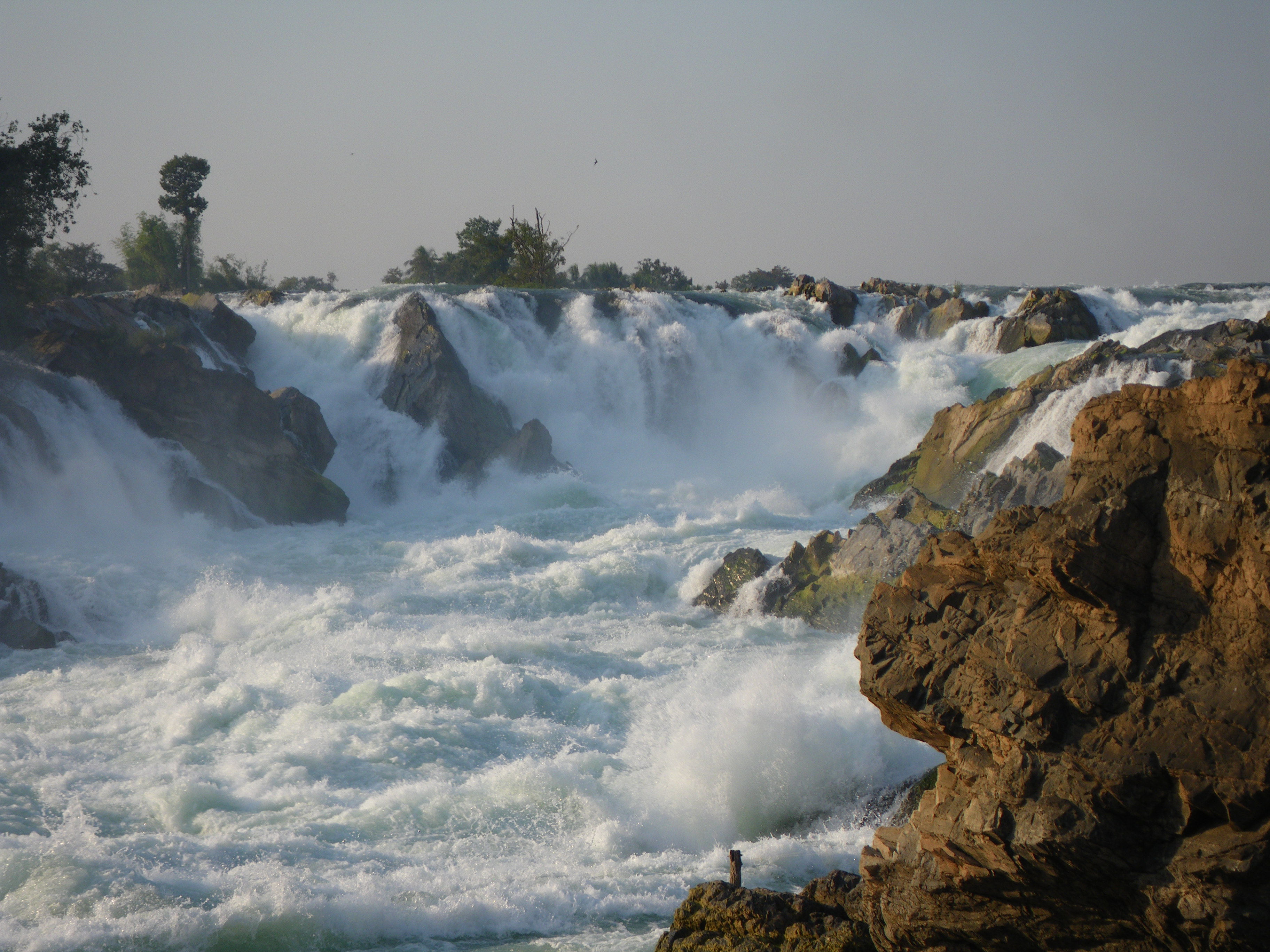 Khone Phapheng Falls, Mekong river, Laos.